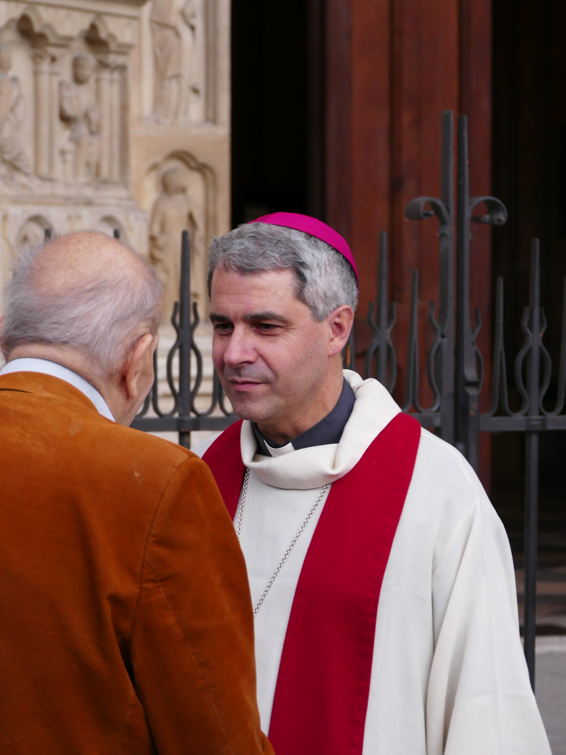 Mgr Denis Jachiet, auxiliary bishop of Paris, after the Vigil for Life in Paris (Île-de-France, France).